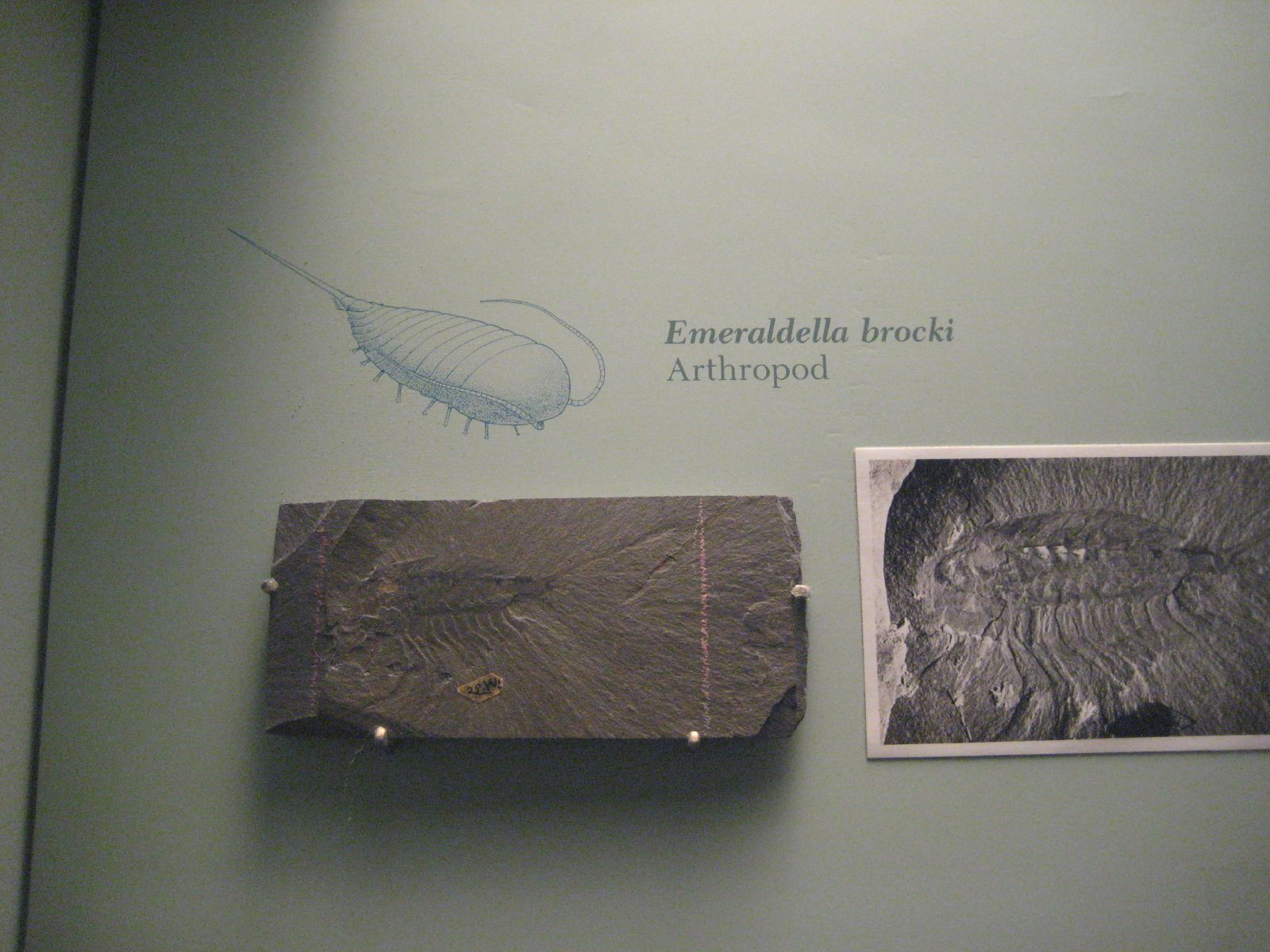 Emeraldella brocki, a basal arthropod. Middle Cambrian; Burgess Shale, British Columbia, Canada.